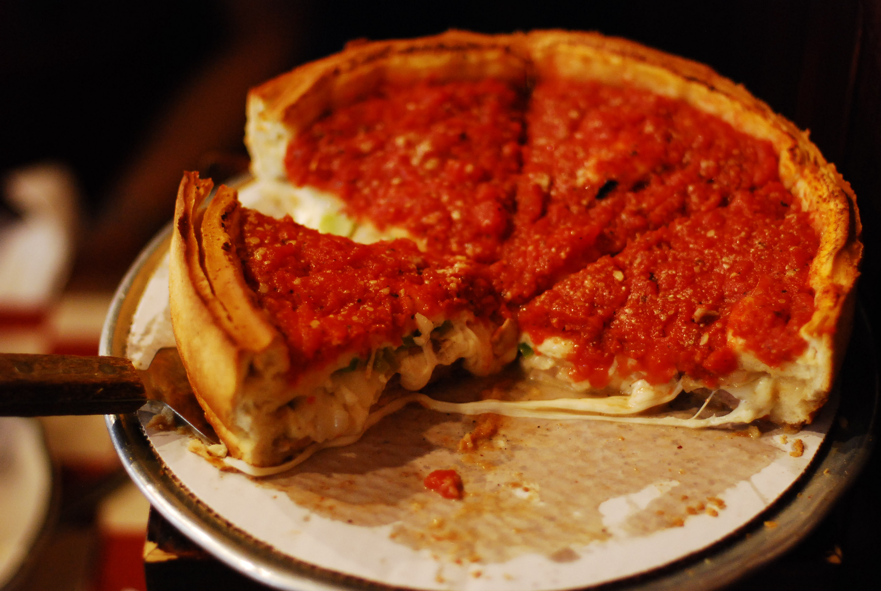 Personal stuffed pizza from Giordano